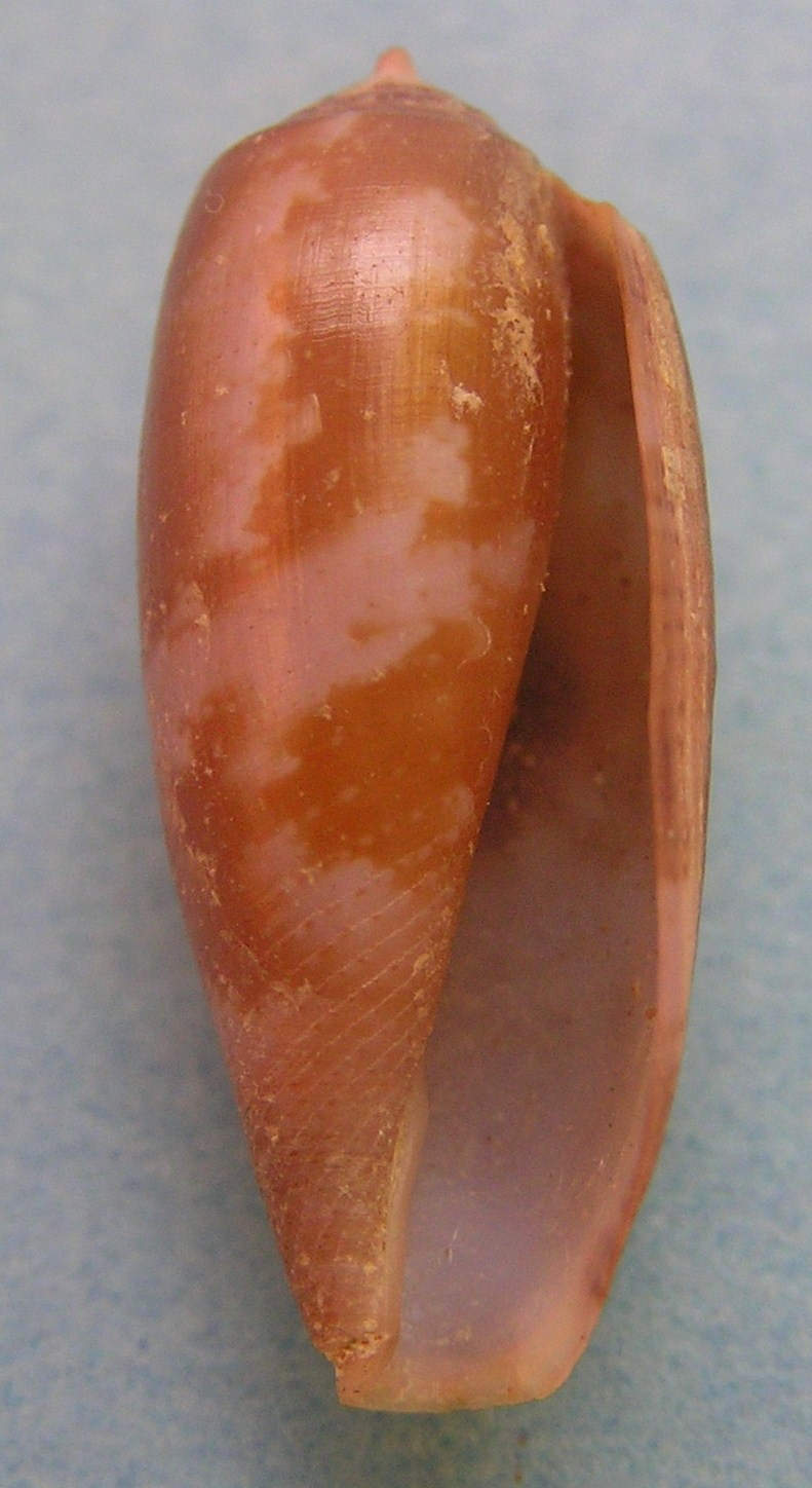 Conus obscurus G.B. Sowerby II, 1833 ; the Philippines